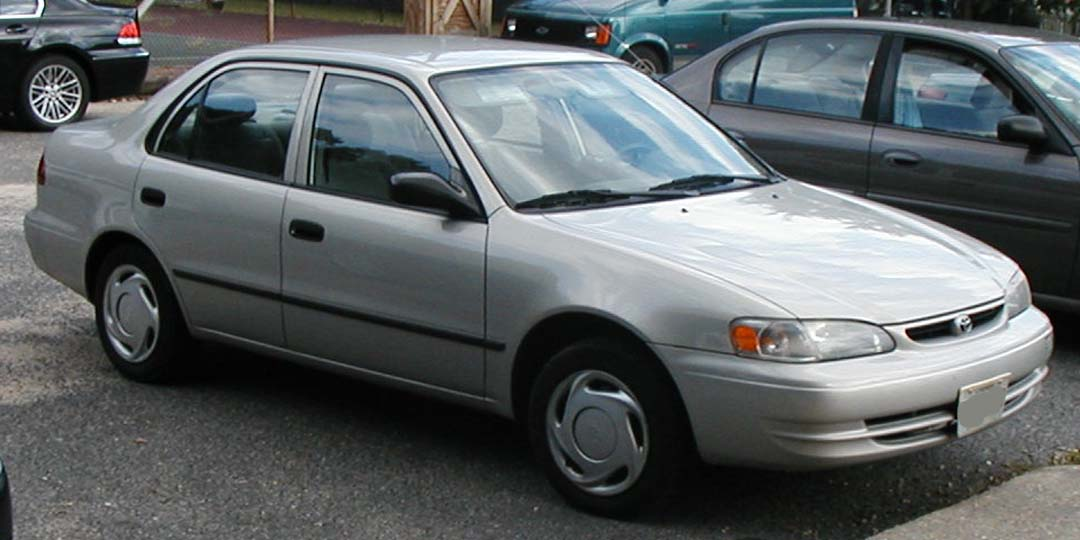 1998-2000 Toyota Corolla photographed in USA.